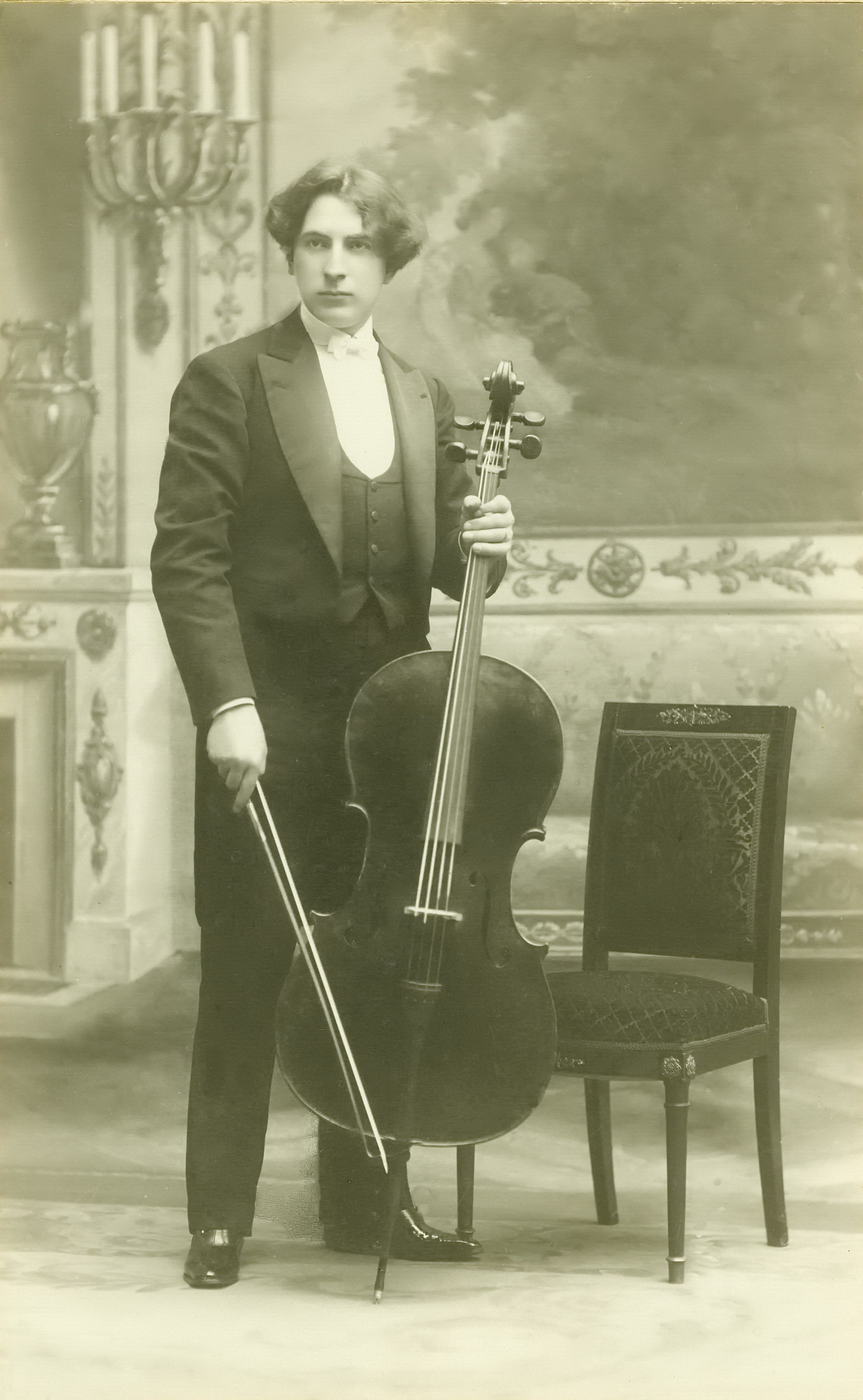 Croatian cellist and composer Juro Tkalčić (1877-1957) in Paris